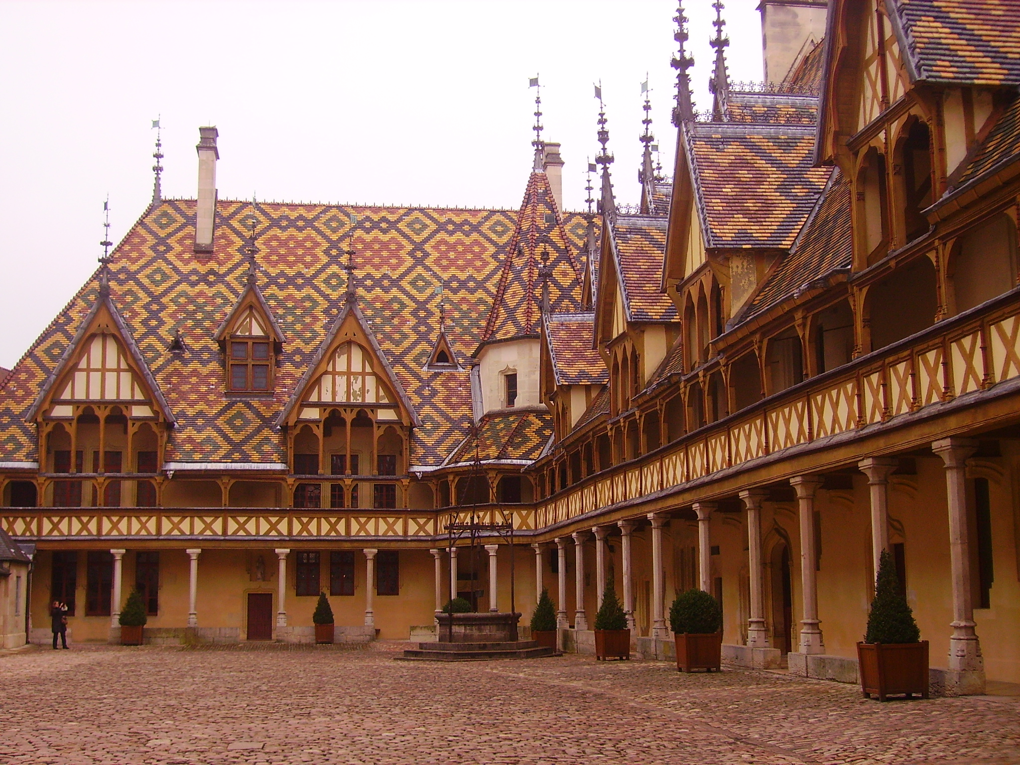 Courtyard of the Hôtel-Dieu, Beaune .